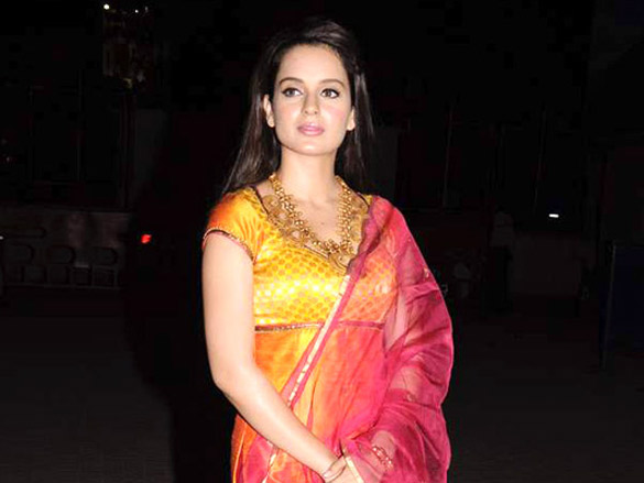 Kangna at Diwali celebrations to promote 'Miley Naa Miley Hum